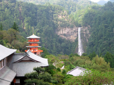 Seigantoji-Temple and Waterfall of Nachi